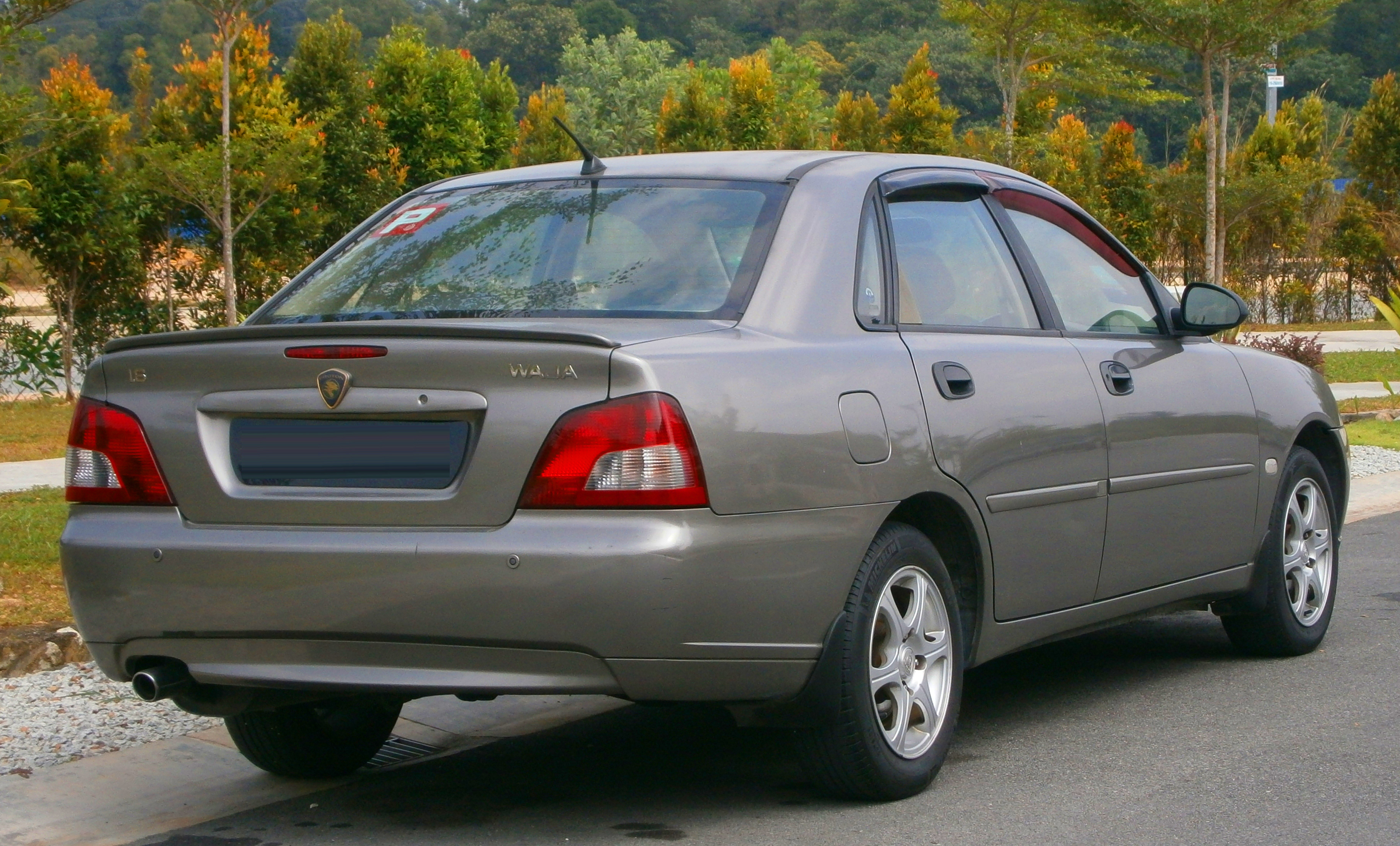 2005 Proton Waja 1.6 (4G18) in Puchong, Malaysia. Designed & Assembled in Malaysia